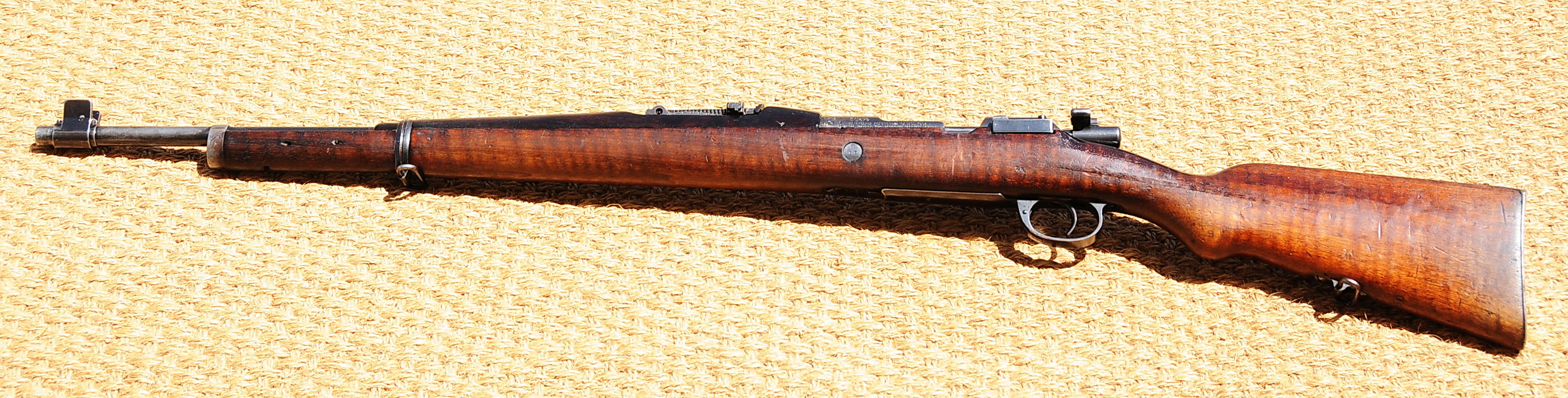 DWM "Mauser" Vergueiro 1904. Left view.